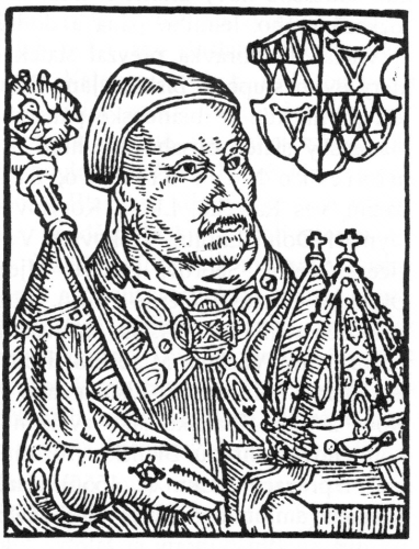 Bishop Jan Skala Dubravius